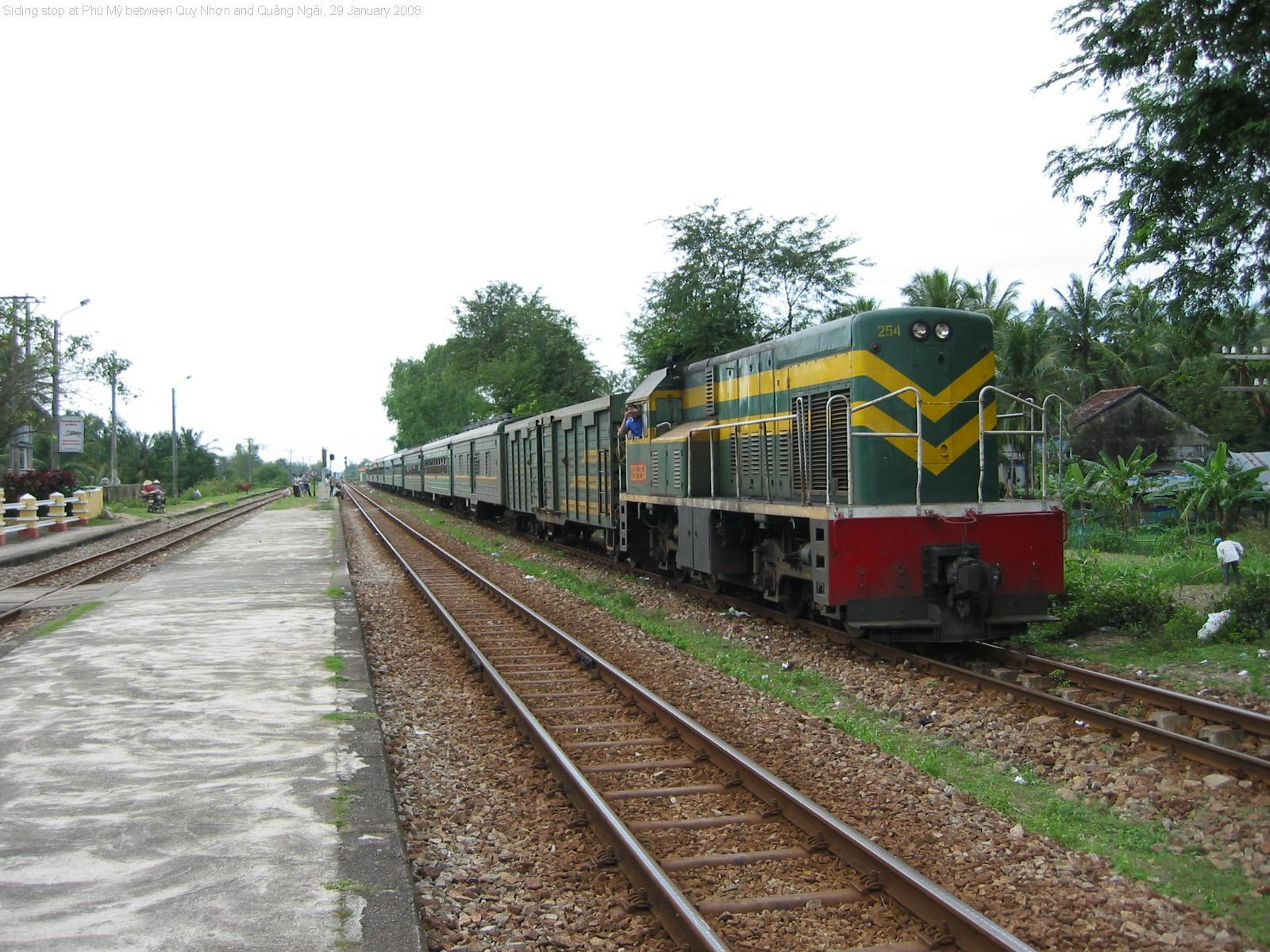 Northbound Đường sắt Việt Nam local train on passing siding at Phù Mỹ between Quy Nhơn and Quảng Ngãi